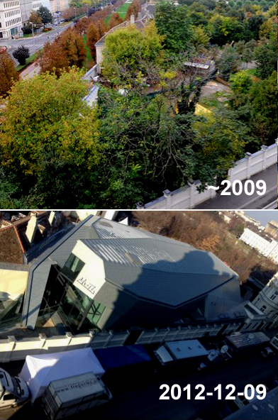 Augartenspitz views from a neighbour's window. Takes from ~2009 and 2012-12-09.